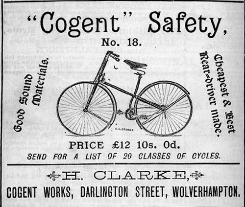 Advertisement for a Cogent Safety Bicycle, Barkers Wolverhampton Trade Directory, 1887